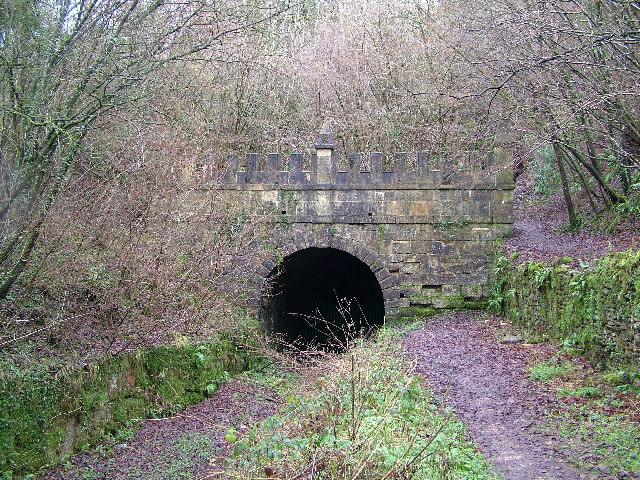 Sapperton Tunnel - North Portal